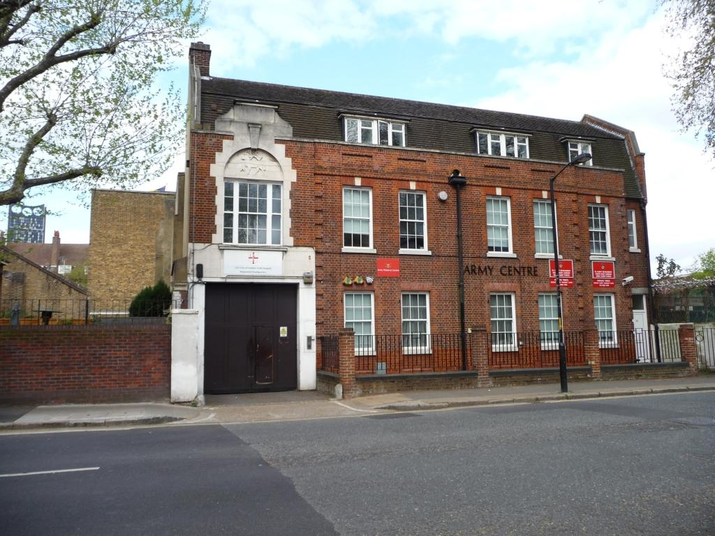 The Army Centre, Braganza Street, Kennington